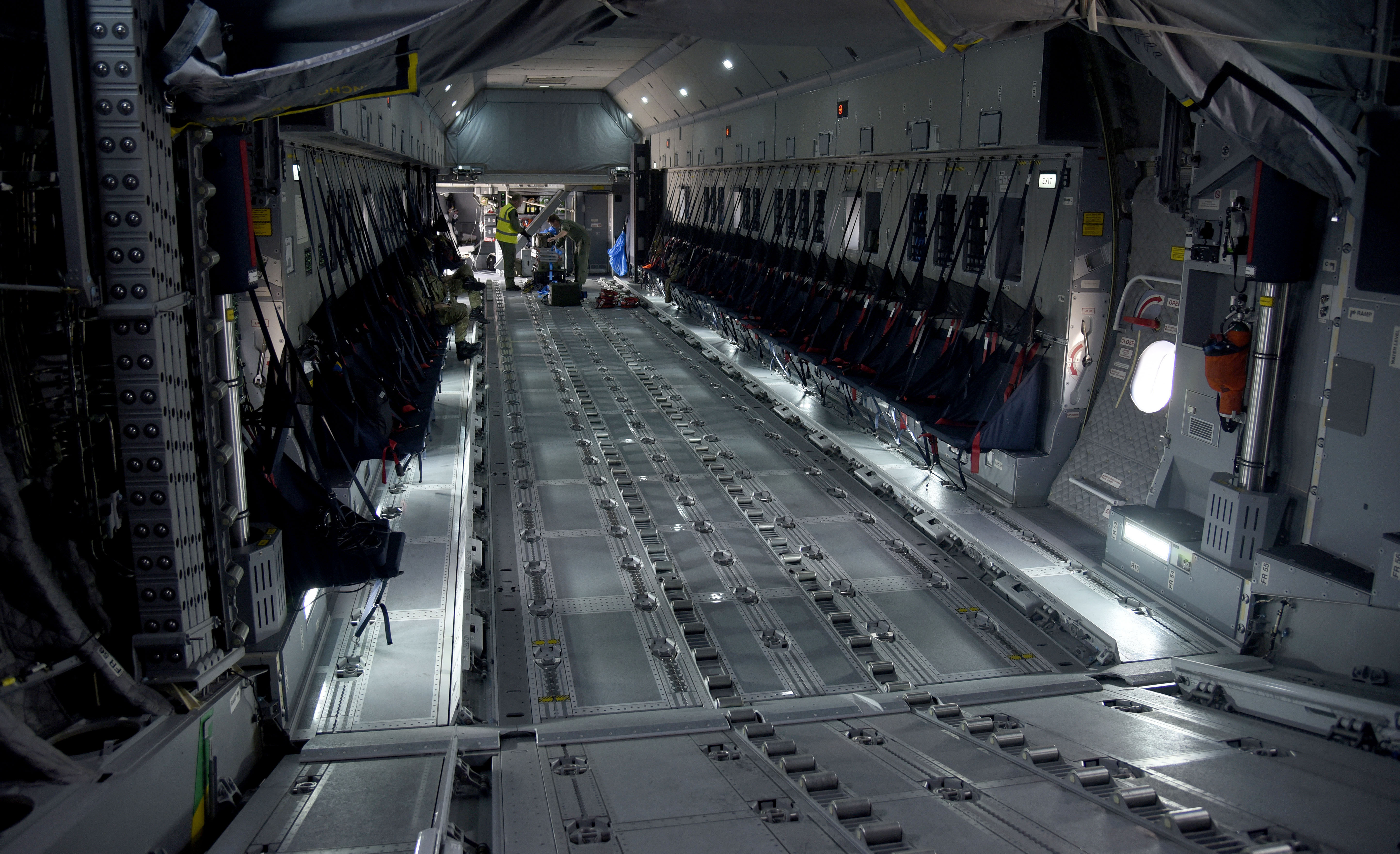 Aircrew members prepare an A400M Atlas, assigned to the Royal Air Force, for takeoff Aug. 3, 2017, at Joint Base Lewis-McChord, Wash. The A400 has been in service with the RAF since 2014. More than 3,000 Airmen, Soldiers, Sailors, Marines and international partners converged on the state of Washington in support of Mobility Guardian. The exercise is intended to test the abilities of the Mobility Air Forces to execute rapid global mobility missions in dynamic, contested environments. Mobility Guardian is Air Mobility Command's premier exercise, providing an opportunity for the Mobility Air Forces to train with joint and international partners in airlift, air refueling, aeromedical evacuation and mobility support. (U.S. Air Force photo by Airman 1st Class Erin McClellan)